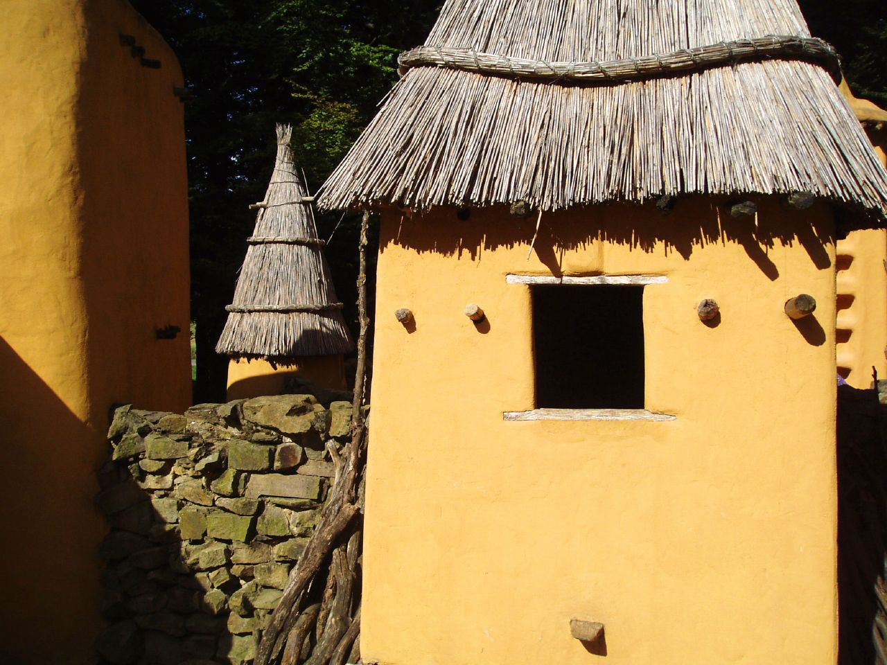 Dogon cob houses and thatched roof granaries — in Mali.